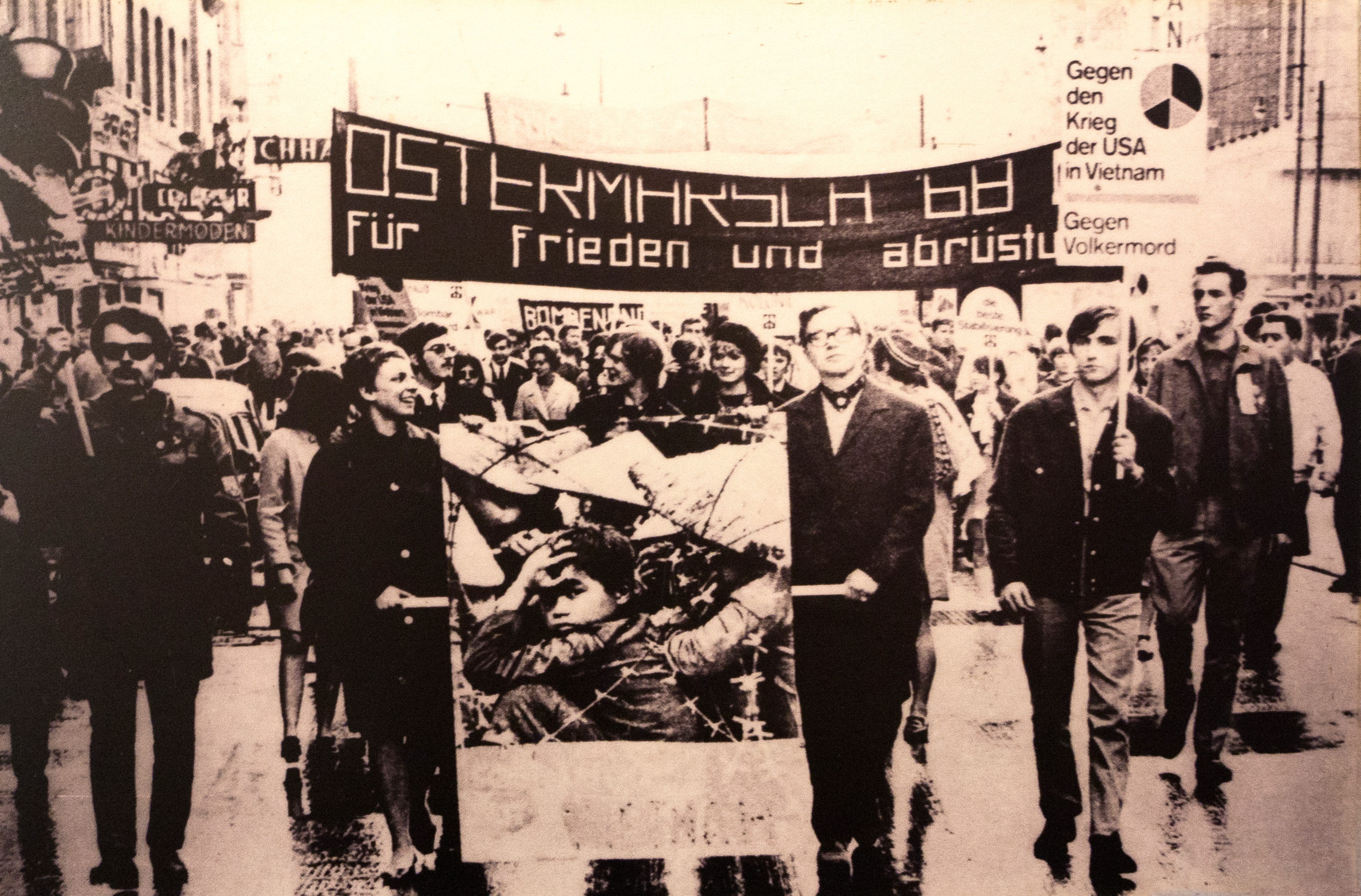 Vietnam War protests 1968 in Vienna, Austria. Picture taken in the War Remnants Museum (Vietnamese: Bảo tàng chứng tích chiến tranh) at 28 Vo Van Tan, in District 3, Ho Chi Minh City (Saigon), Vietnam